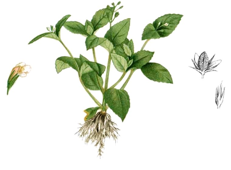 Plate from book